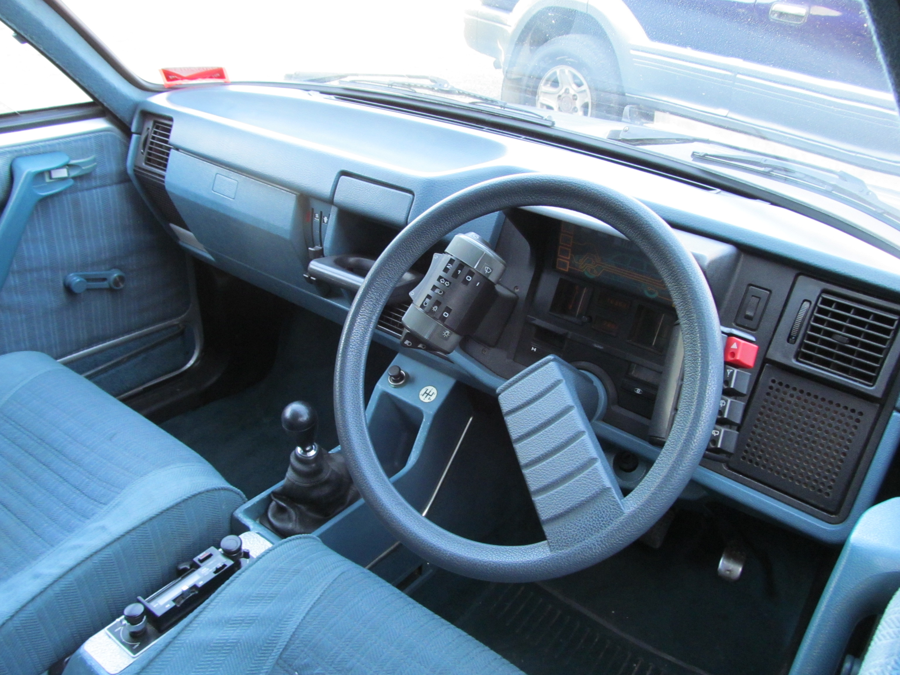 It shouldn't take much to guess this, but it's very cool in its own 80s techy way...